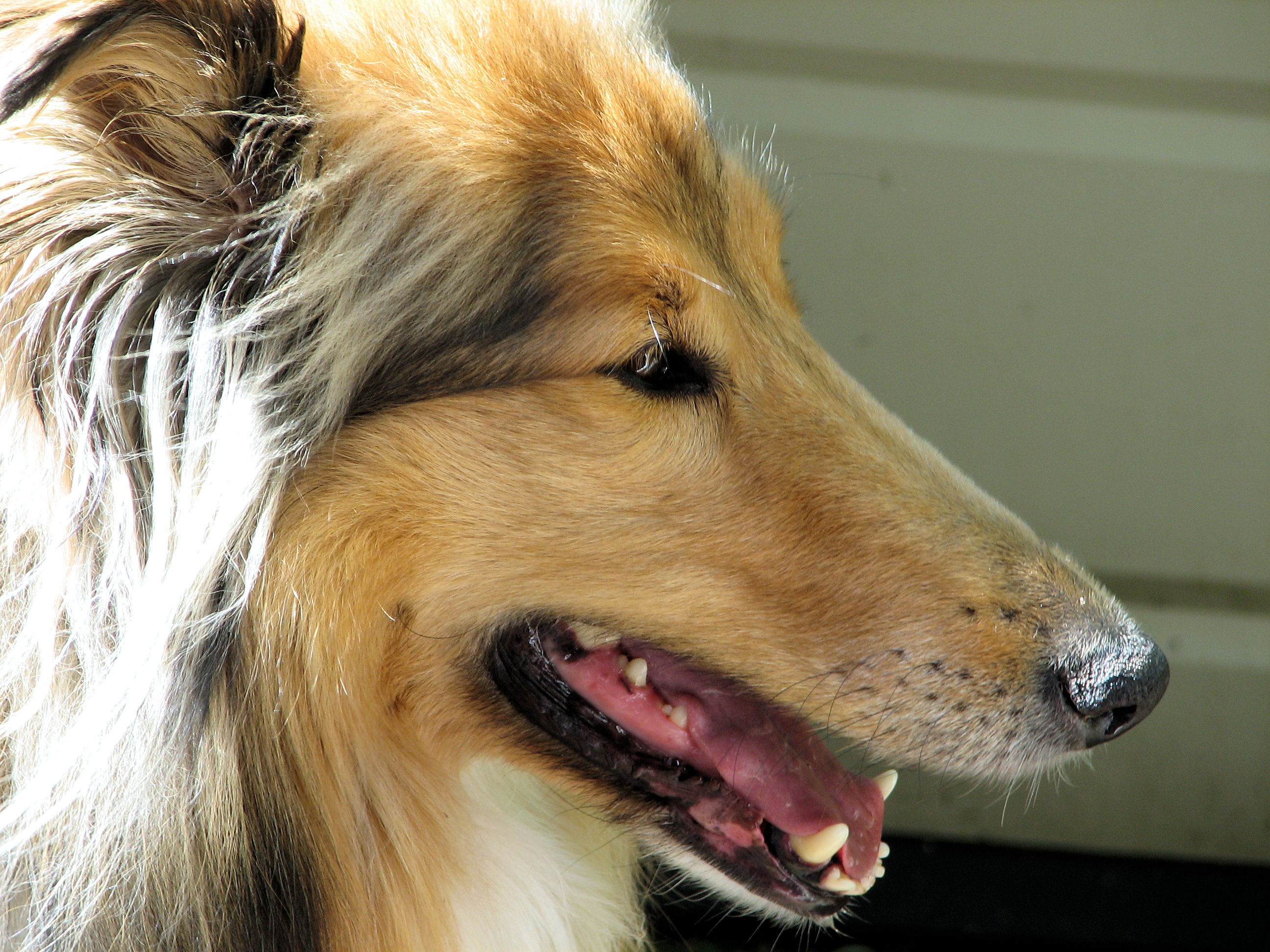 Rough Collie head